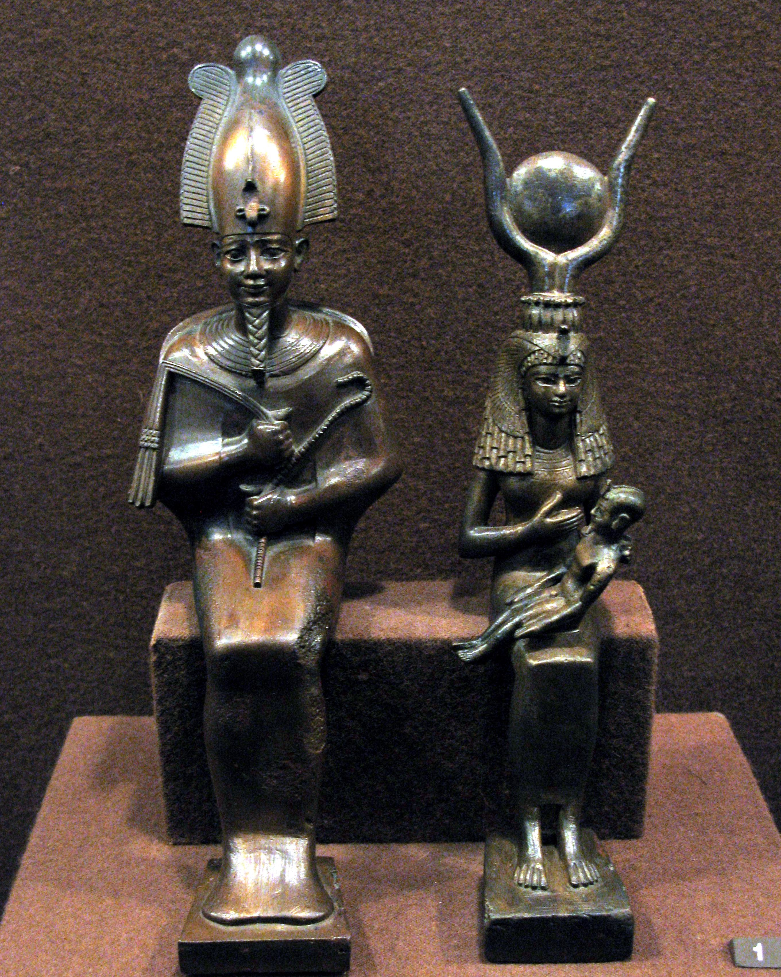 Egyptian Collection of the Hermitage Museum